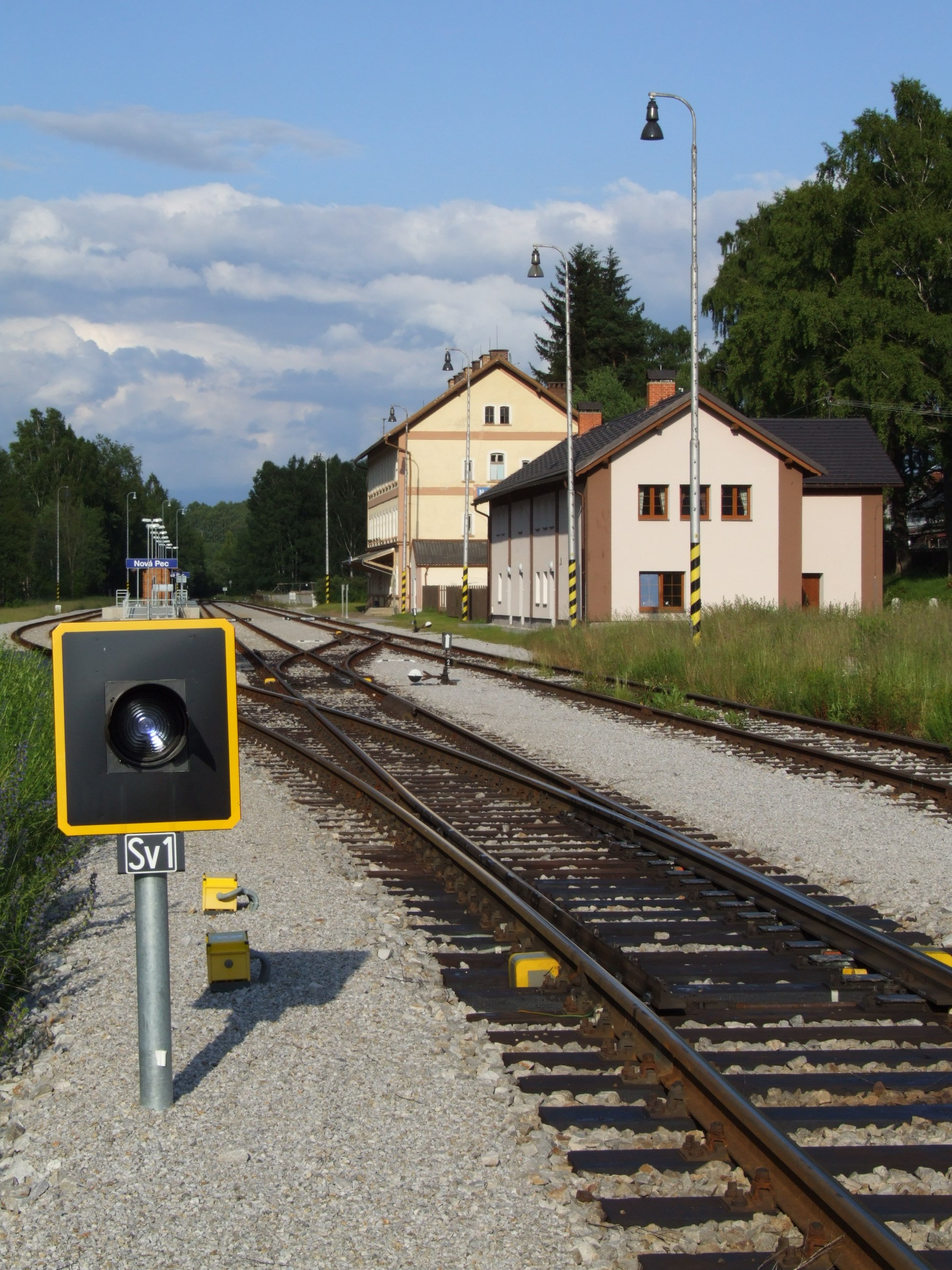 Nová Pec (Neuofen) - train station